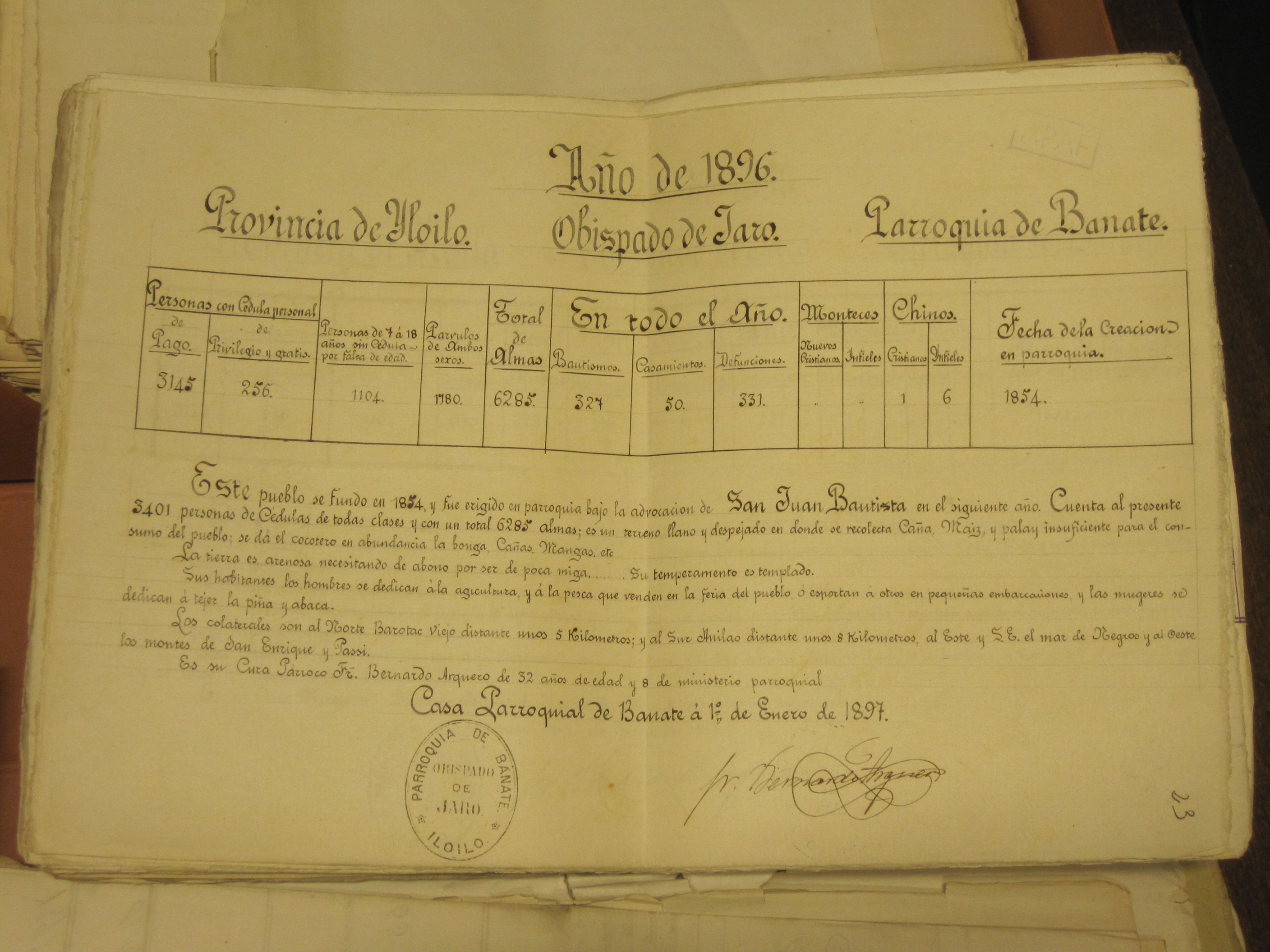 High resolution image of the Report of R. P. Fray Bernardo Arquero, O.S.A., dated 1 January 1897, regarding the statistical data and historical information of the Parish of St. John the Baptist in Banate, Iloilo (Philippines). The document can be found in the Augustinian Monastery in Valladolid, Spain.